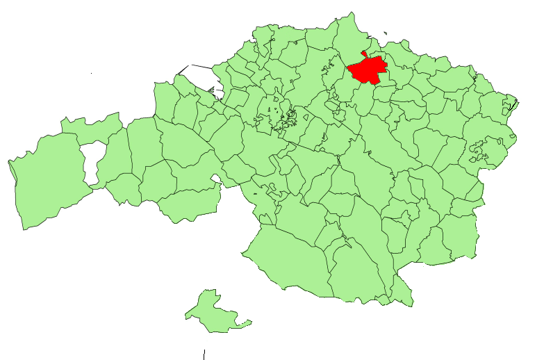 Busturia municipality in the province of Biscay